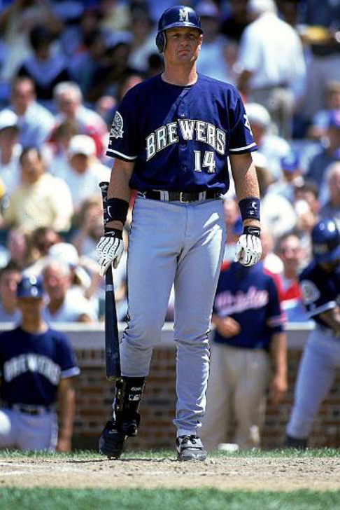 David playing in the MLB for the Milwaukee Brewers